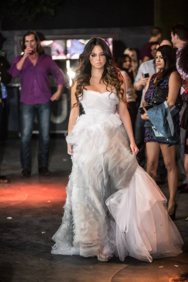 Starland pictured on the runway for Gordana Gelhausen.